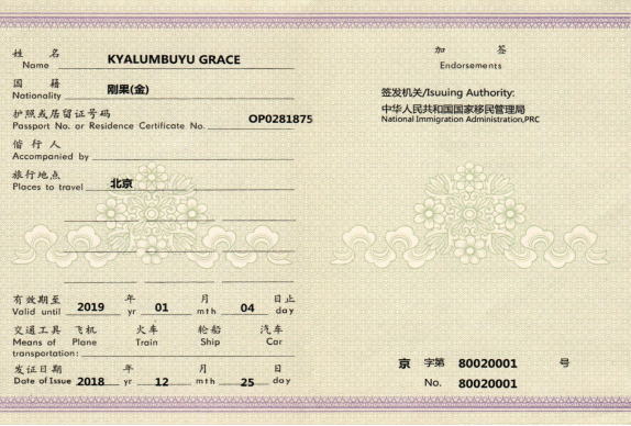 Personal Info Page of Aliens' Travel Permit, People's Republic of China